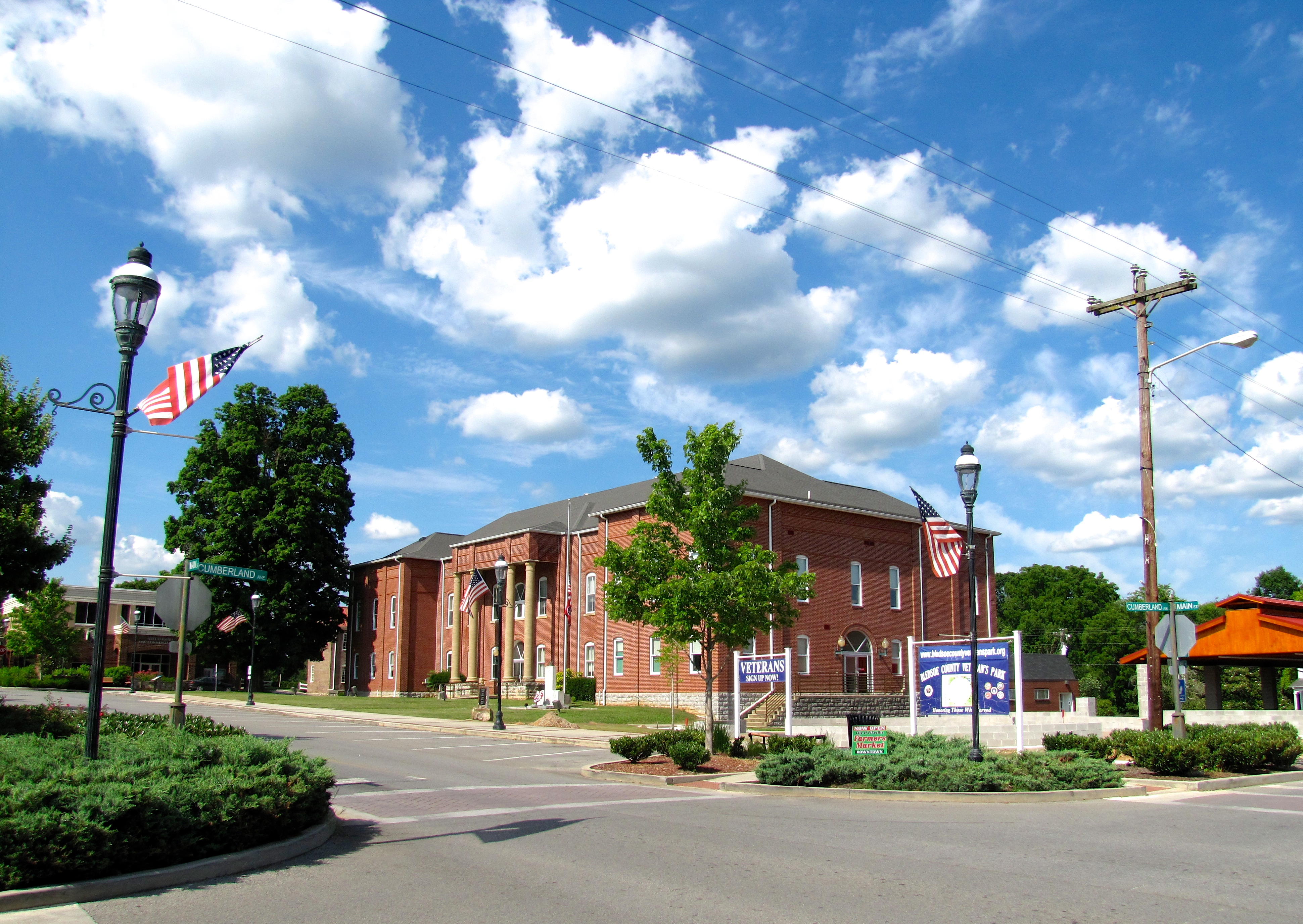 Bledsoe County Courthouse and the adjacent courthouse square, looking northeast from the intersection of Cumberland and Main, in Pikeville, Tennessee, United States.